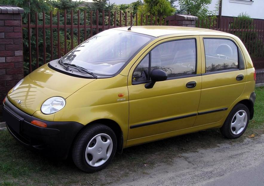 Daewoo Matiz from Polish Wikipedia.